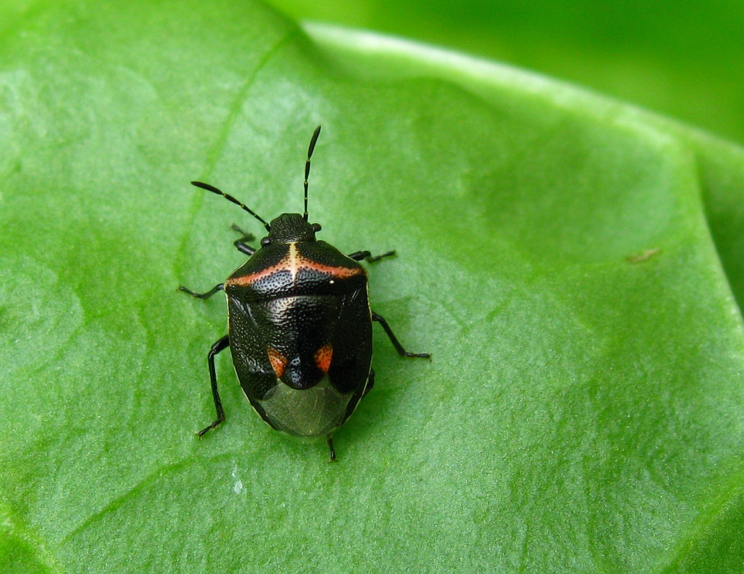 Cosmopepla lintneriana, 'twice-stabbed stink bug', adult. Taken in Southern British Columbia, Canada, in a greenhouse. Specimen is on Swiss Chard. July 2014.